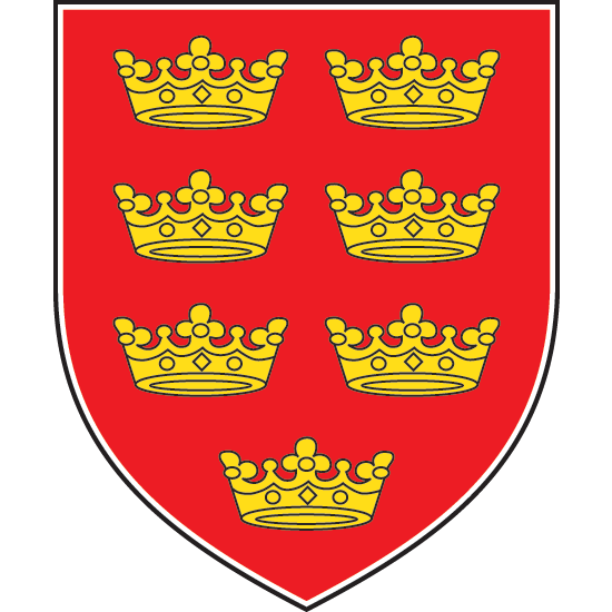 Small Coat of Arms of the city and municipality of Palilula (Niš)